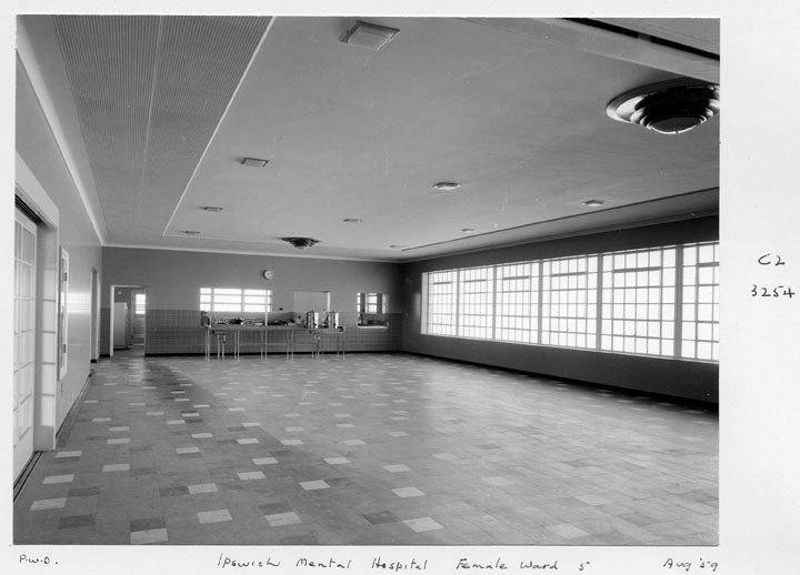 Ipswich Mental Hospital, Female Ward 5. (Original photo caption makes reference to Public Works Department)